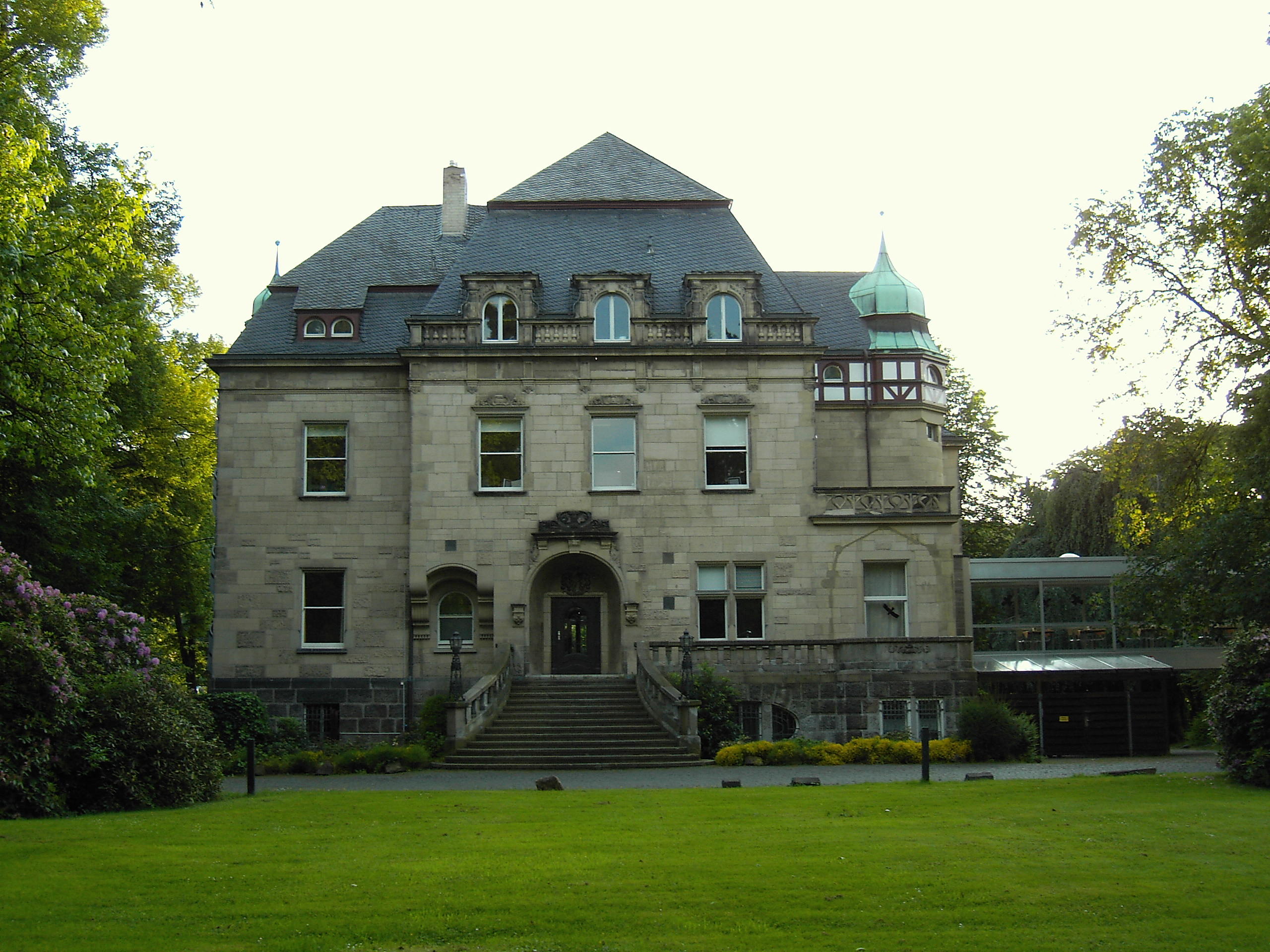 The preparation office for development cooperation in Bad Honnef in that development aid workers were (until 2017) prepared for their deployment in developing countries.